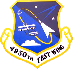 4950th Test Wing emblem off of aircraft at National Museum of the United States Air Force